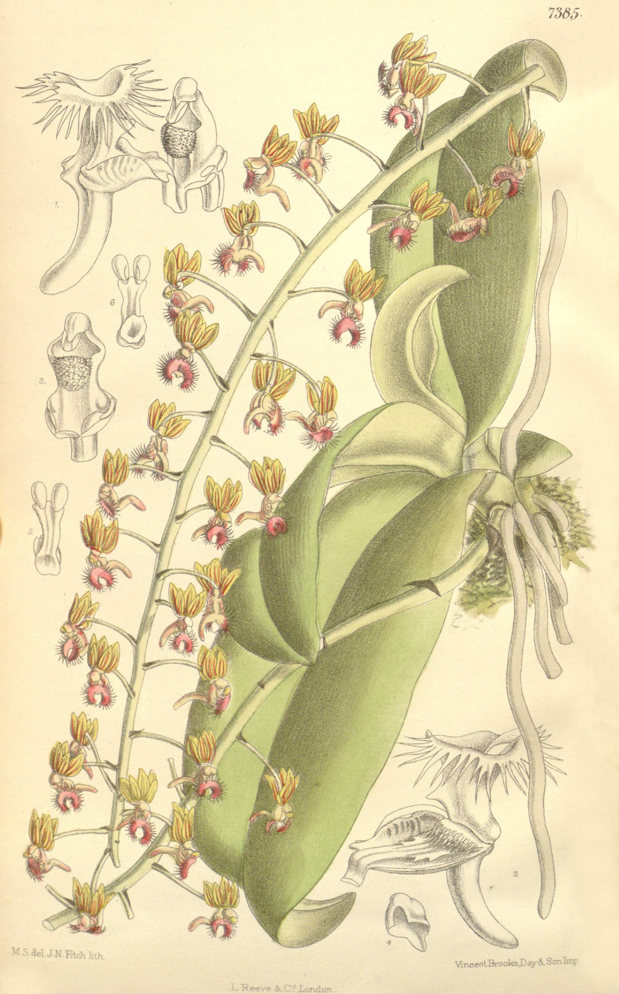 Illustration of Ornithochilus difformis var. difformis (as syn. Ornithochilus fuscus)